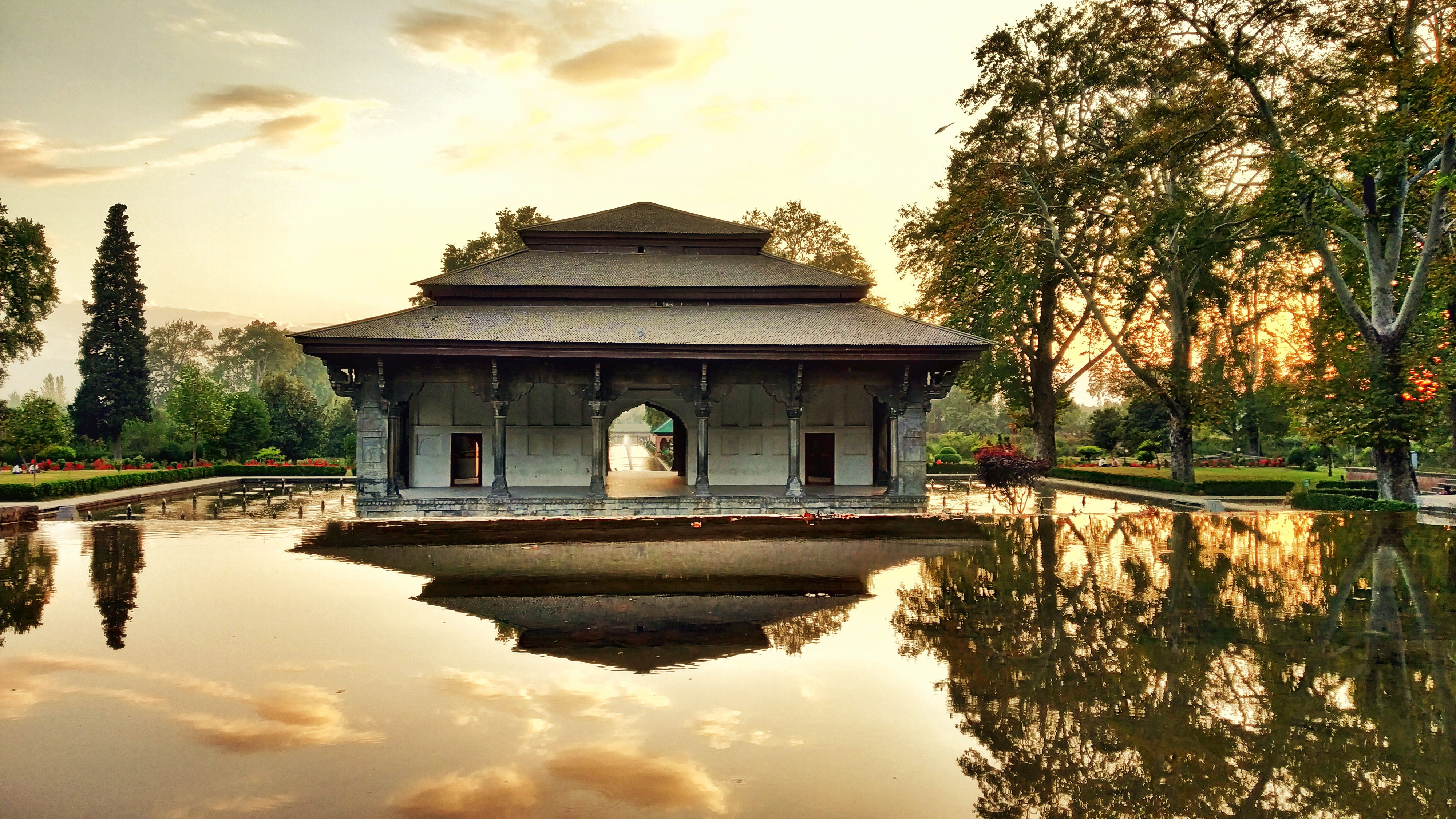 The marble pavilion.. In the third terrace of shalimar Garden the axial water channel flows through the Zenana garden, which is flanked by the Diwan-e-Khas and chinar trees. At the entrance to this terrace, there are two small pavilions or guard rooms (built in Kashmir style on stone plinth) that is the restricted and controlled entry zone of the royal harem. Shahajahan built a baradari of black marble, called the Black Pavilion in the zenana garden. It is encircled by a fountain pool that receives its supply from a higher terrace. A double cascade falls against a low wall carved with small niches (chini khanas), behind the pavilion. Two smaller, secondary water canals lead from the Black Pavilion to a small baradari. Above the third level, two octagonal pavilions define the end wall of the garden. The baradari has a lovely backdrop of the snow mountains, which is considered a befitting setting for the Bagh.